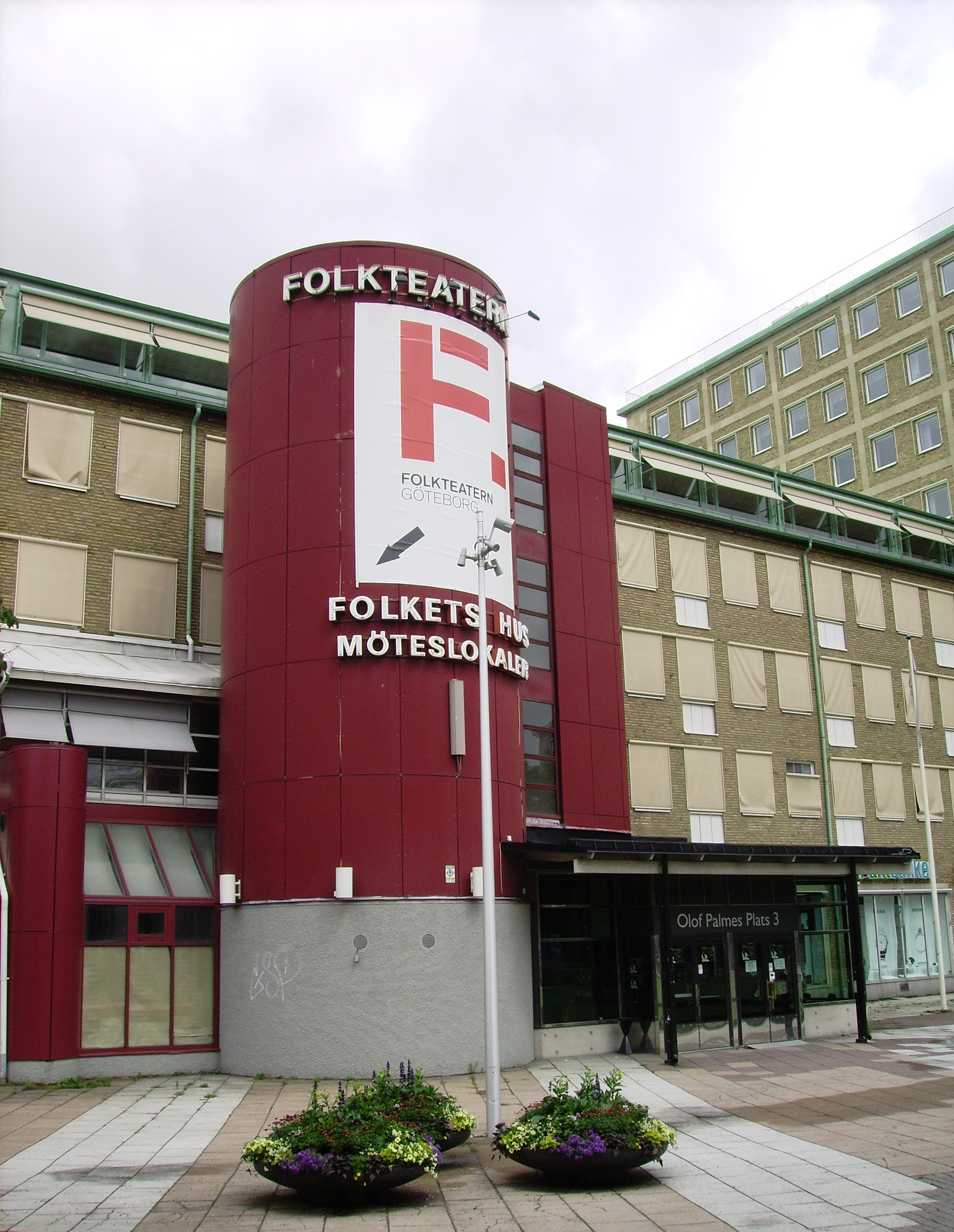 Picture of Folkteatern, Folkets hus and Olof Palmes Plats 3 in Gothenburg